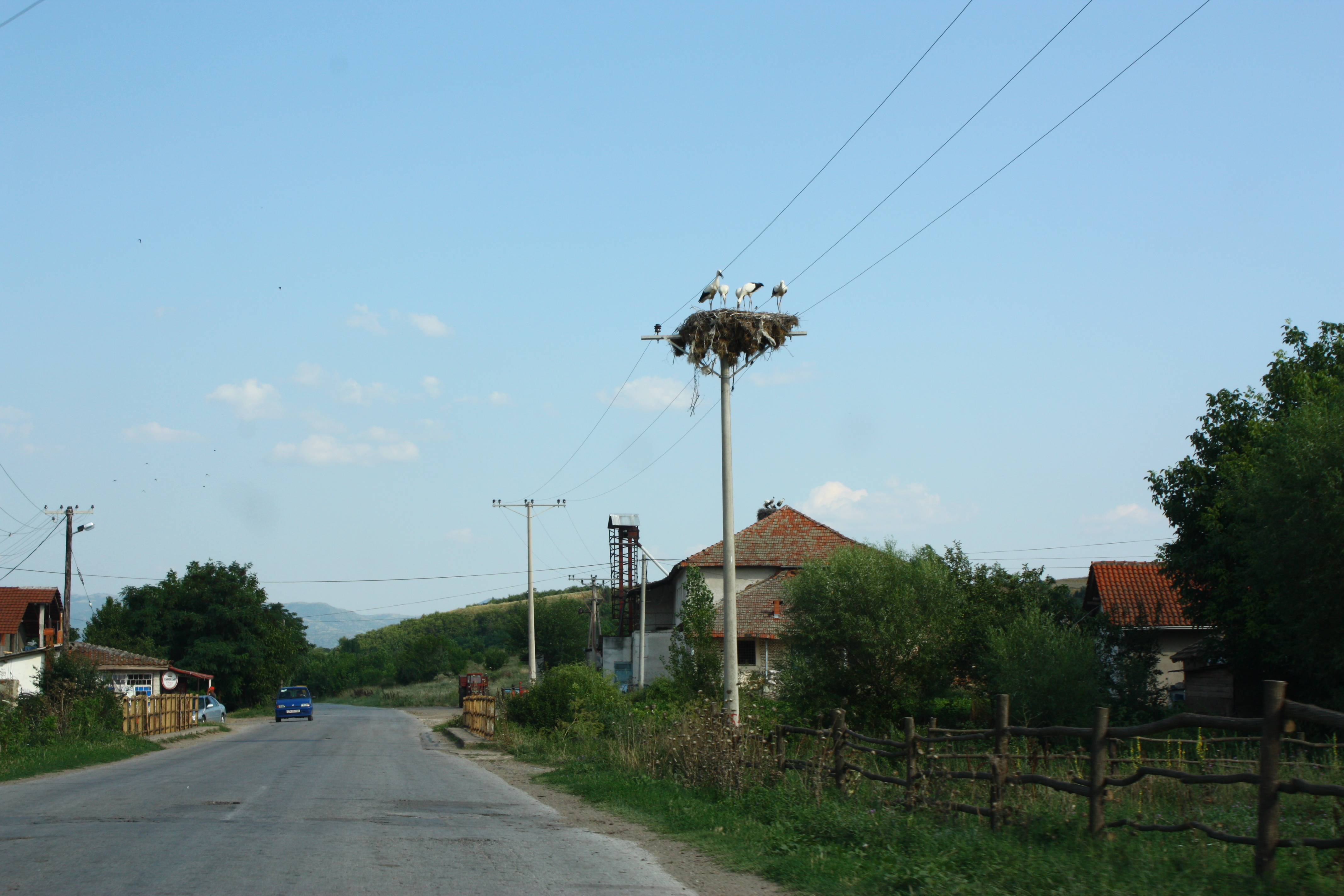 Pišica, Macedonia